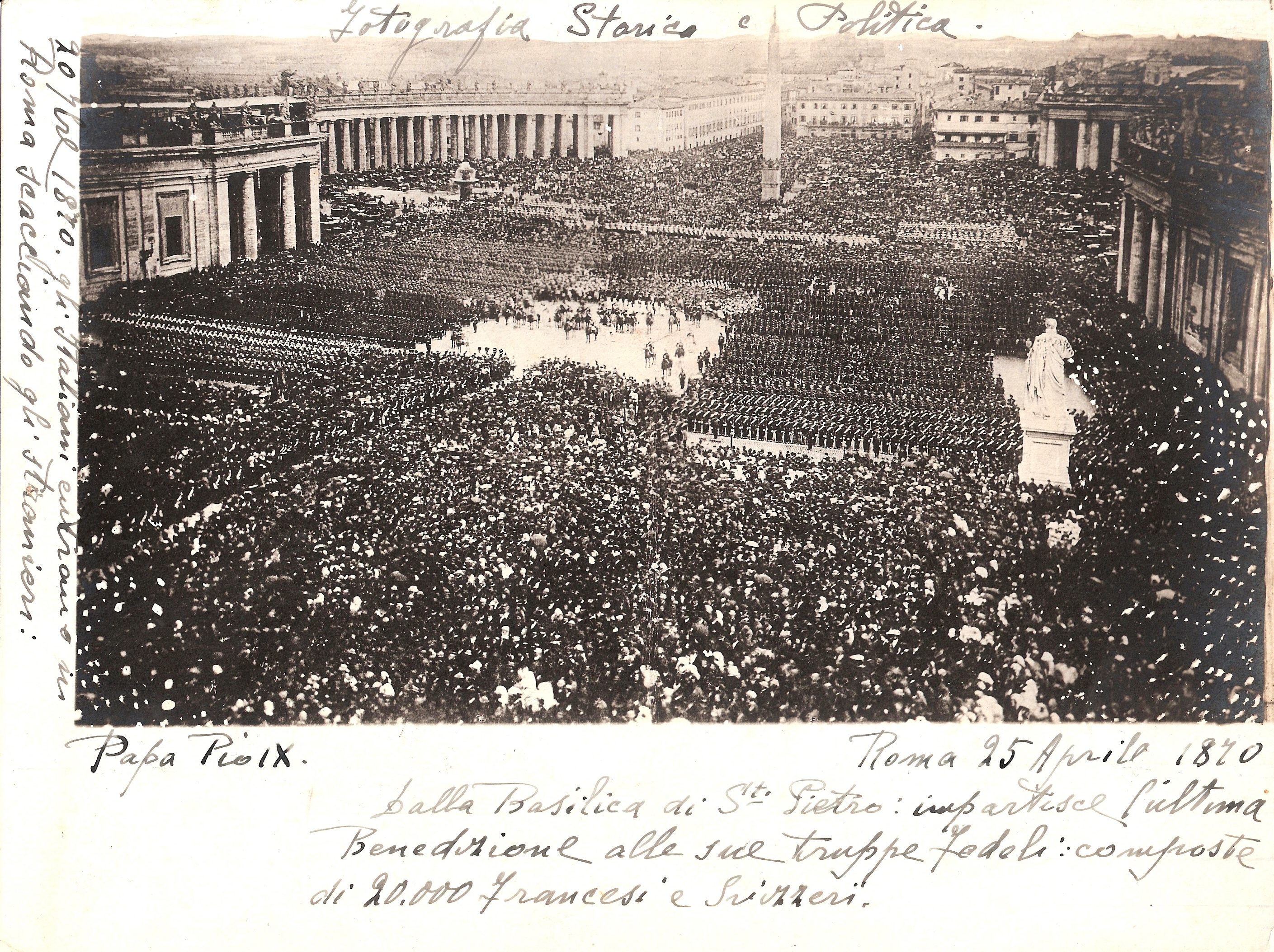 Pope Pius IX blesses his troops for the last time before the Capture of Rome - 25 april 1870. The original picture, scanned by Emiliano Burzagli, belongs to the Private archive of Burzagli family, Italy.